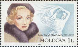 Stamp of Moldova